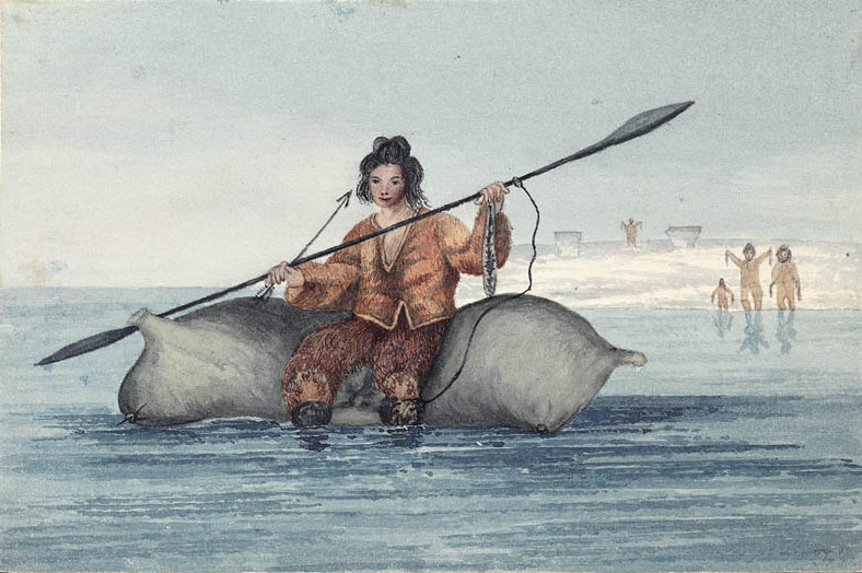 Sadlermiut man on an inflated walrus skin. Captain Lyon's drawing of a Sadlermiut in 1824. The Eskimo came out to the ship on a float of three inflated seal-skins which he prpelled by a slender paddle of whale's bone. The flint-headed arrow and two dreied salmon were a peace-offering. (By: W. E. Taylor: The Mysterious sadlermut. In: The BeaverWinter 1959, Hudson's Bay Company, page 29)